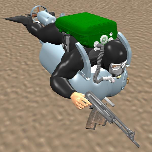 This is a CGI image of a frogman using the Russian kit as listed here and described at these links. Russian IDA71 military and naval rebreather APS Underwater Assault Rifle 5.56 mm Protei-5 Russian diver-rider I made this image by CGI.